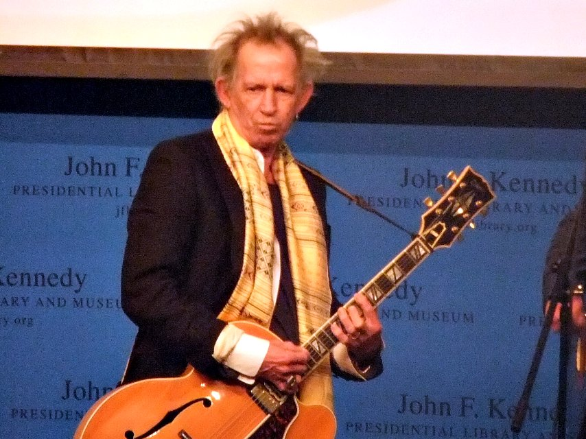 Keith Richards performing for music legends Chuck Berry and Leonard Cohen, who were the recipients of the first annual Pen Awards for songwriting excellence-at the JFK Presidential Library, Boston, Mass. on Feb. 26, 2012.